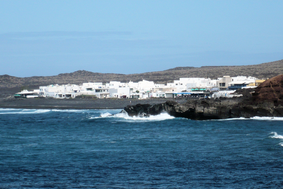 El Golfo, Lanzarote, Canary Islands, Spain